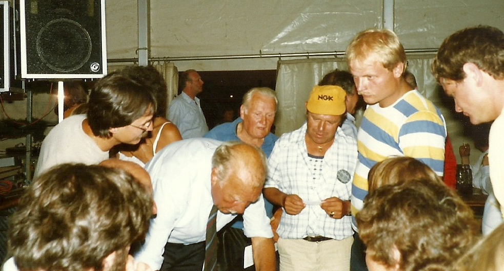 Georg ("Schorsch") Meier visiting the BMW Zielfaht München in 1983